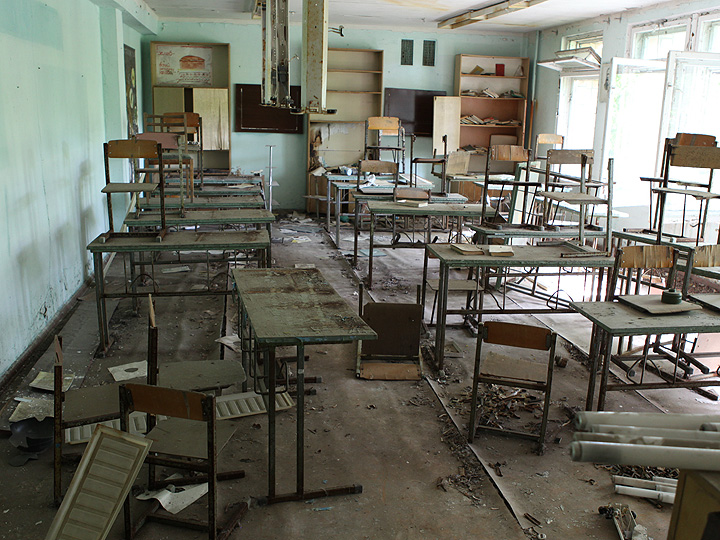 Pripyat - School.